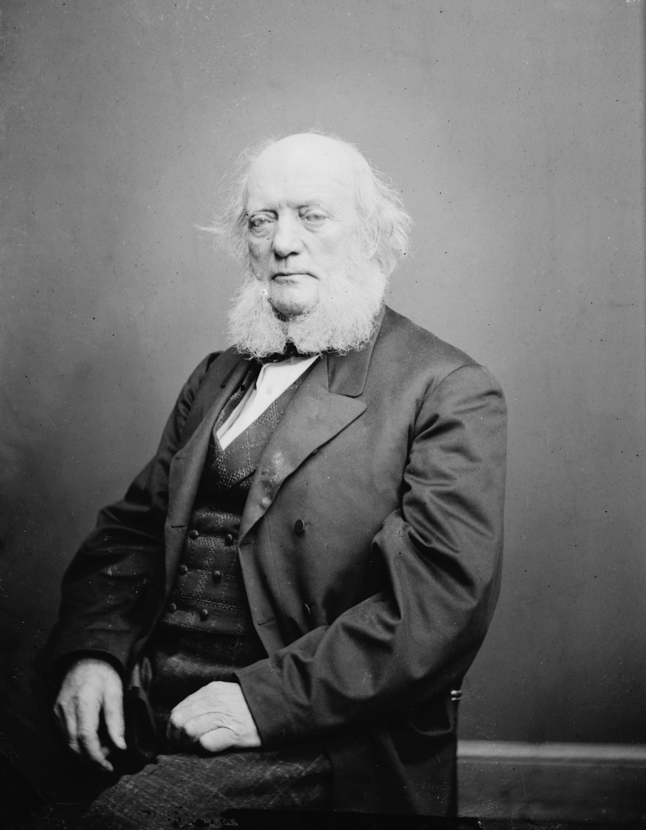 Chester Harding (1792-1866), American portrait painter, wet collodion on glass photograph c 1860-1865, taken by the L. C. Handy Studios. This image is from the Library of Congress online collection; it was restricted until 1964 but the Library states there are now no known restrictions on publication.